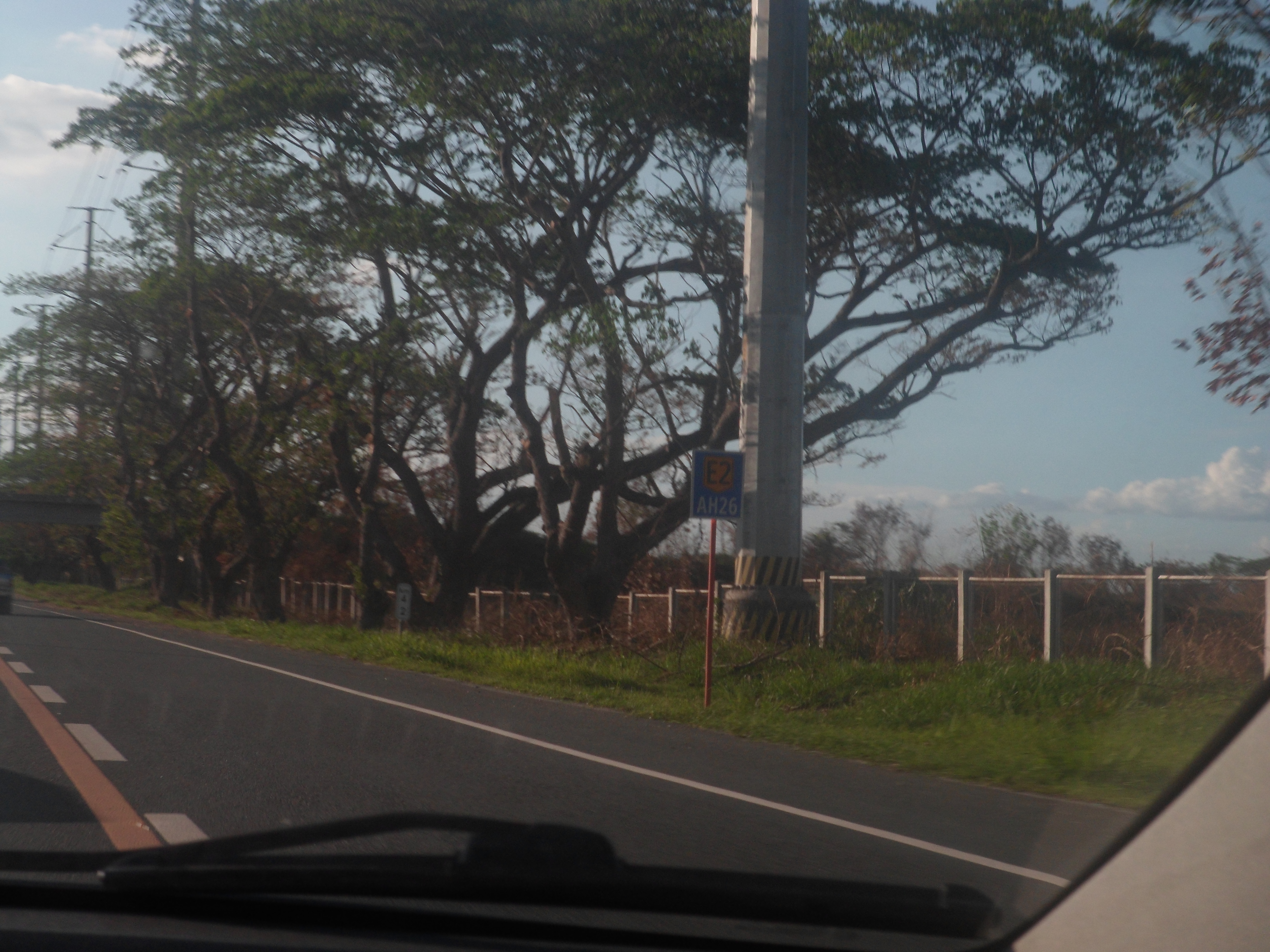 Reassurance marker for Pan-Philippine Highway/AH26 along South Luzon Expressway at Malitlit, Santa Rosa, Laguna.